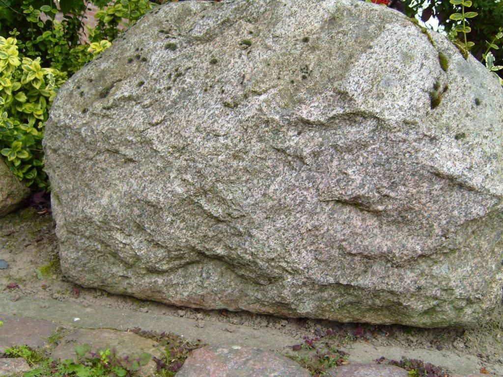 Image title: Stone rock marble rock Image from Public domain images website